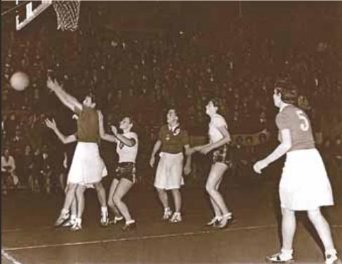 EuroBasket 1938 Women game between Lithuania and Italy.